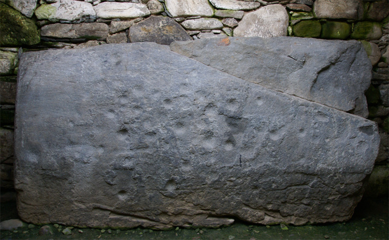 Nether Largie North Cairn, Kilmartin Glen, Scotland - cist slab inside chamber